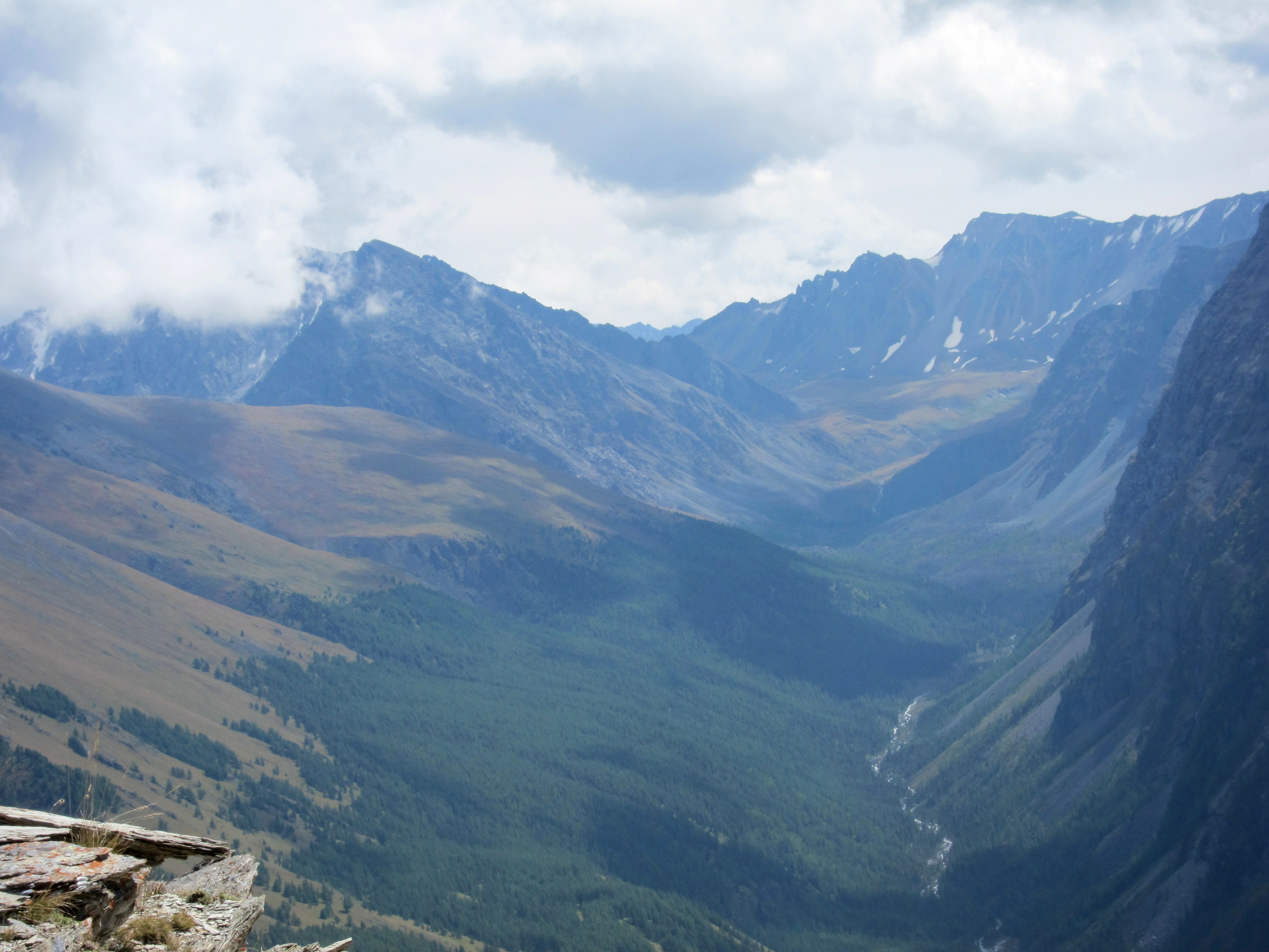 Valley of the Yungur River as seen from Yungur Pass (Kosh-Agachsky District, Altai Republic, Russia)